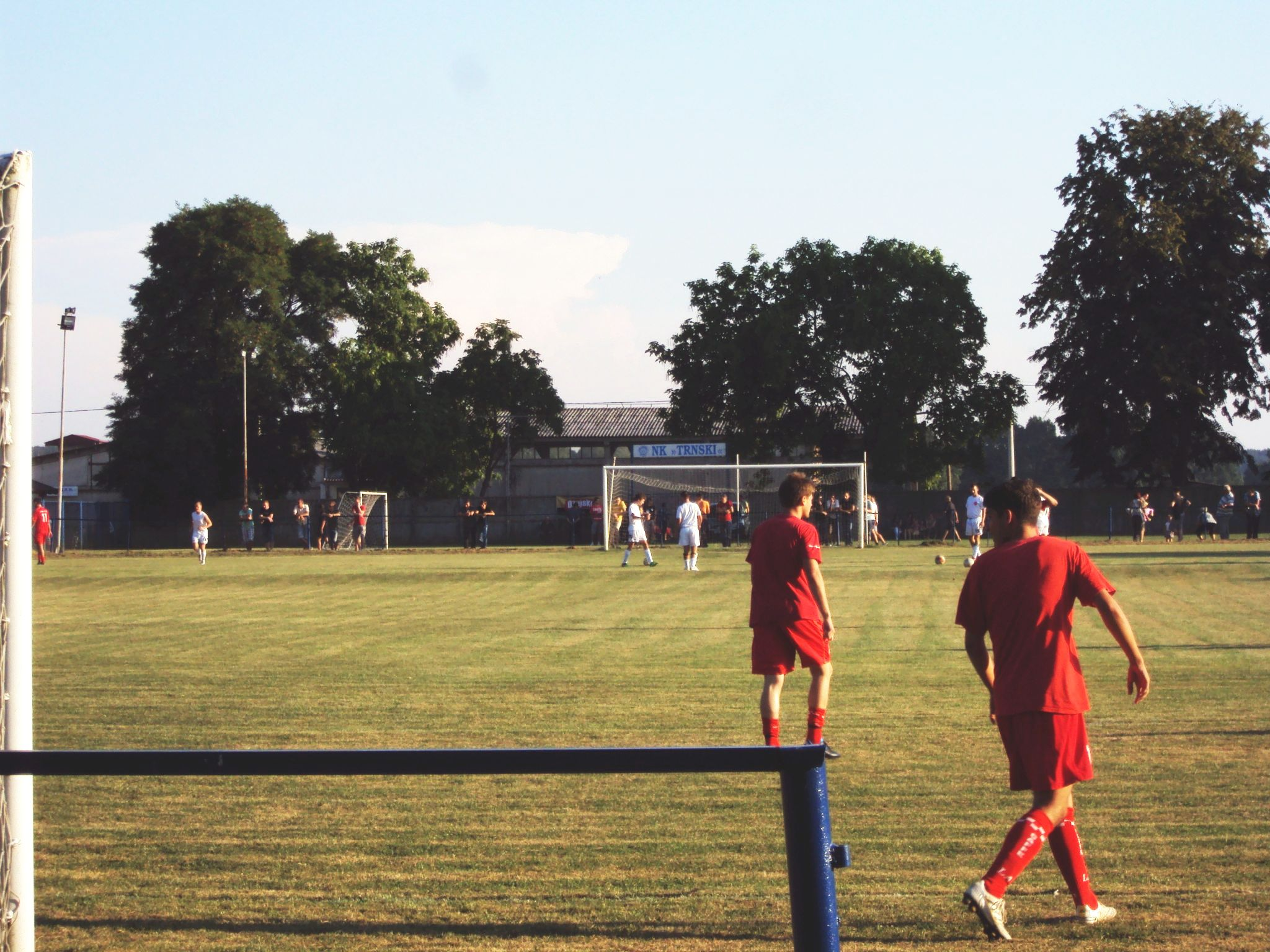 Football field of the football club Trnski Nova Rača